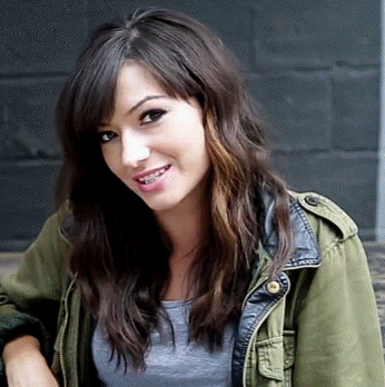 Negovanlis in 2014